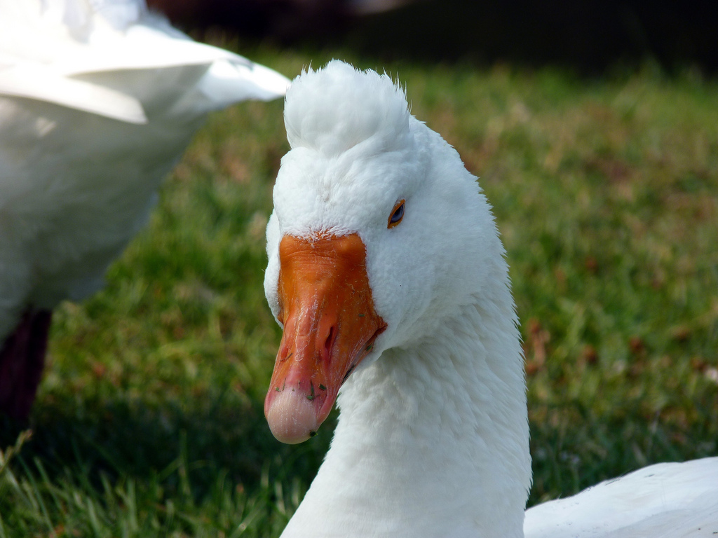 Roman tufted goose in the city park Maastricht